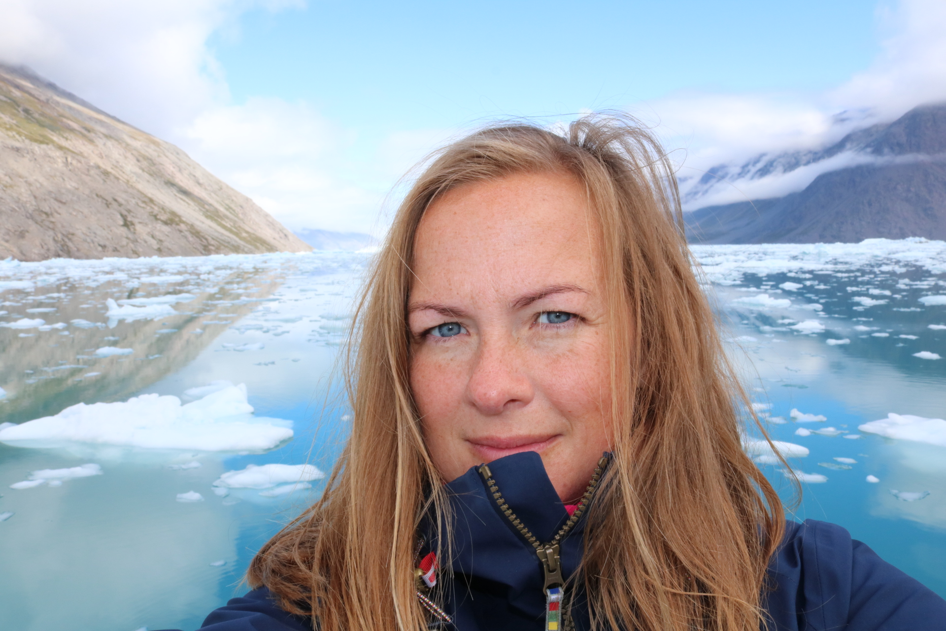 Portrait of Jeanette Varberg south Greenland